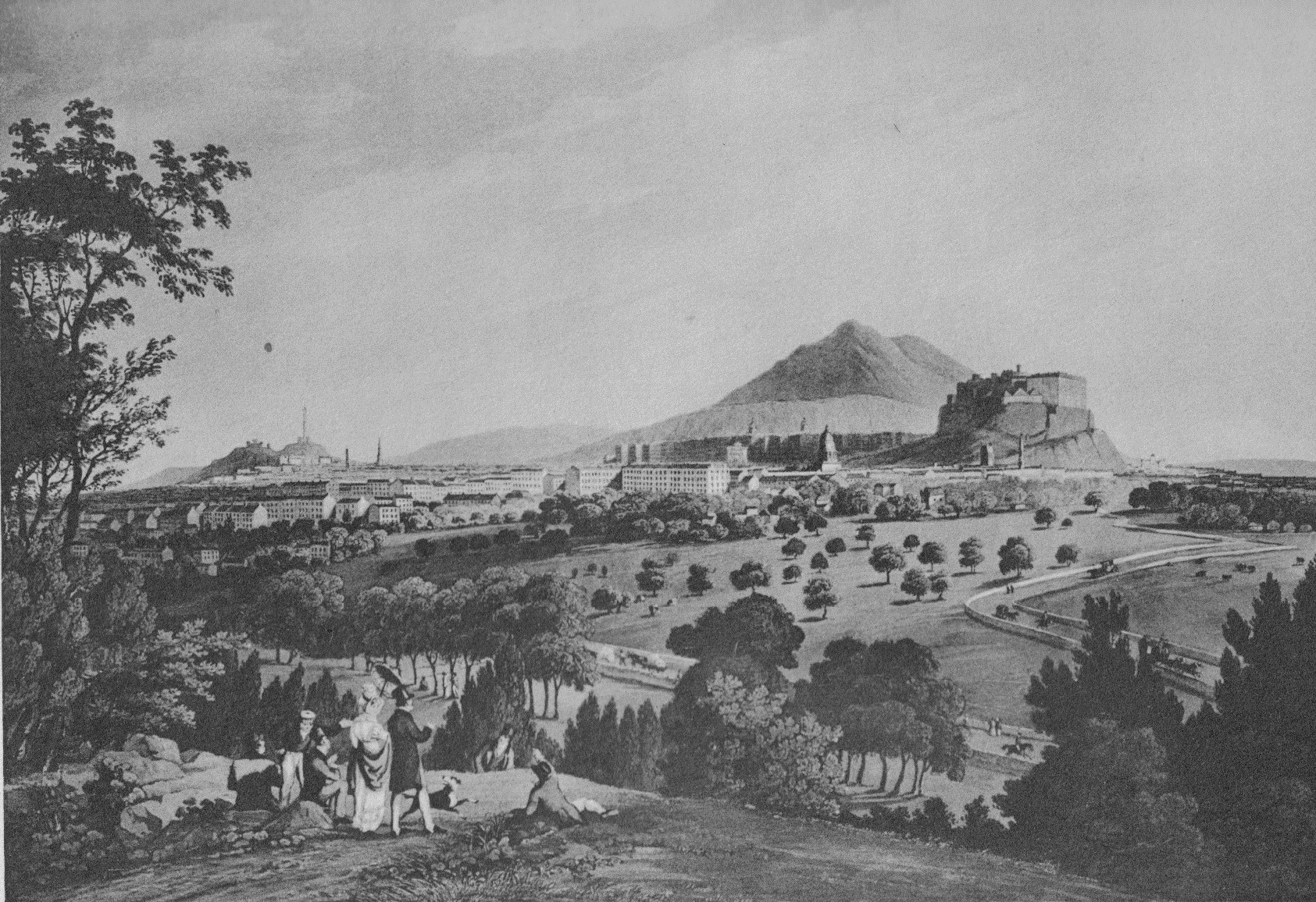 The New Town of Edinburgh sprawls northwards from the Castle with Arthur's Seat behind; from an aquatint by J. Clark, 1824